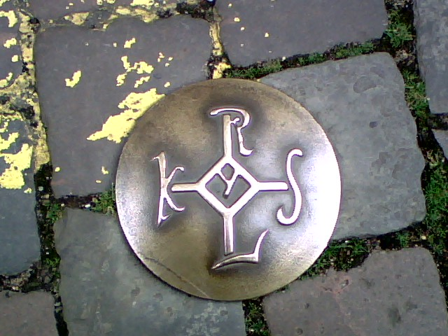 Signature of Carolus Magnus in the streets of Aachen, near the Cathedral.